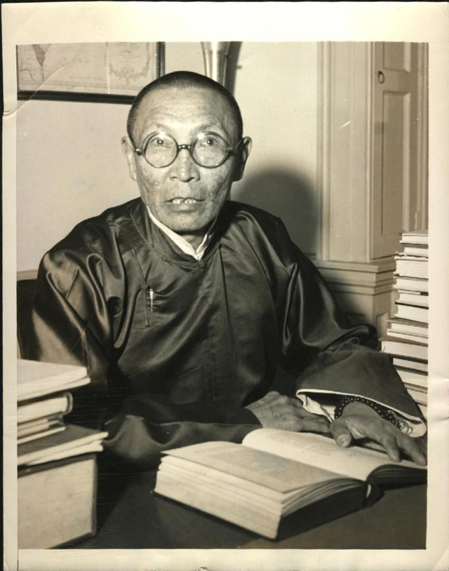 DILOWA HUTUKHTU (1884-1965)